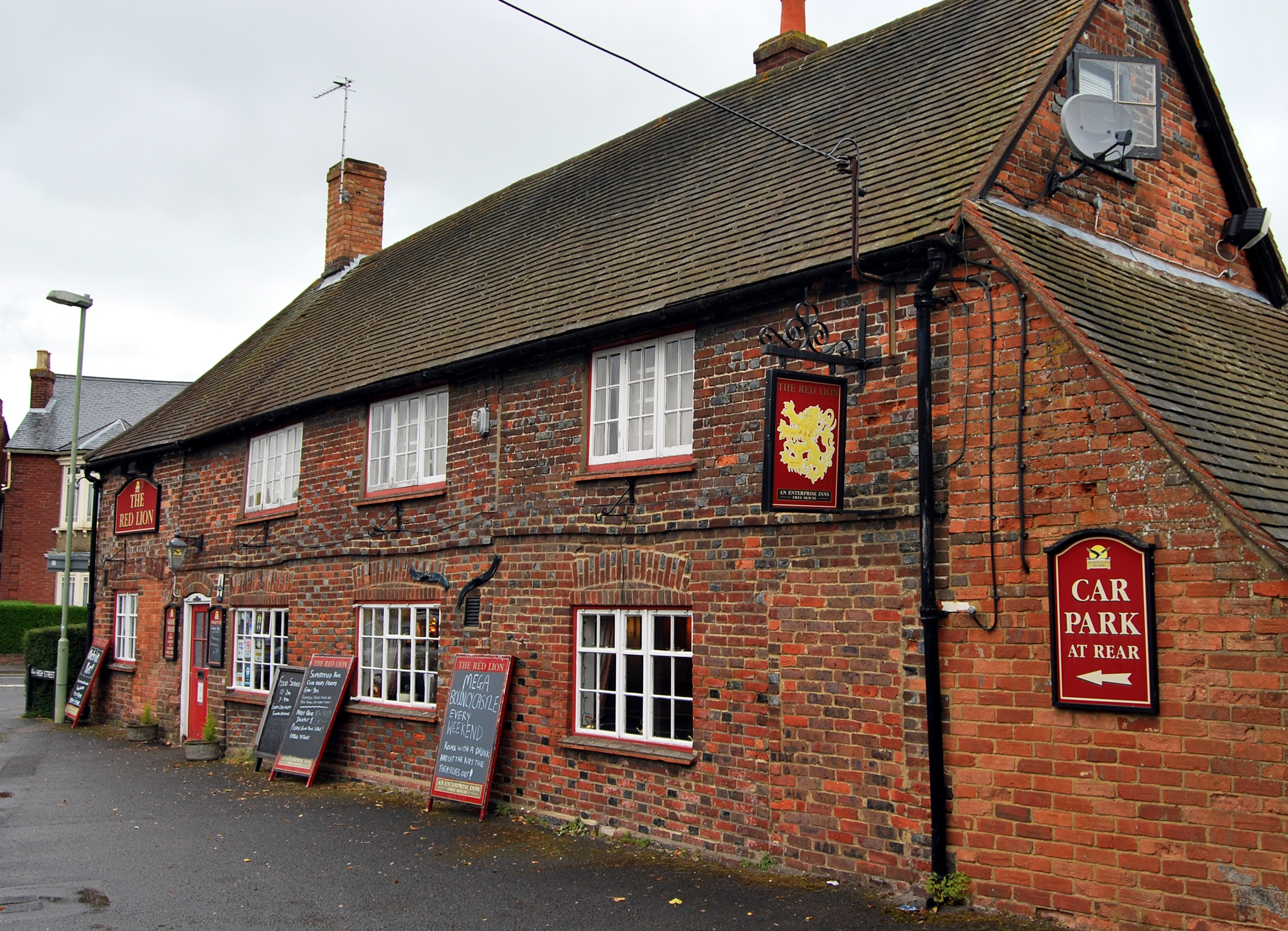 The Red Lion public house, High Street, Chinnor, Oxfordshire